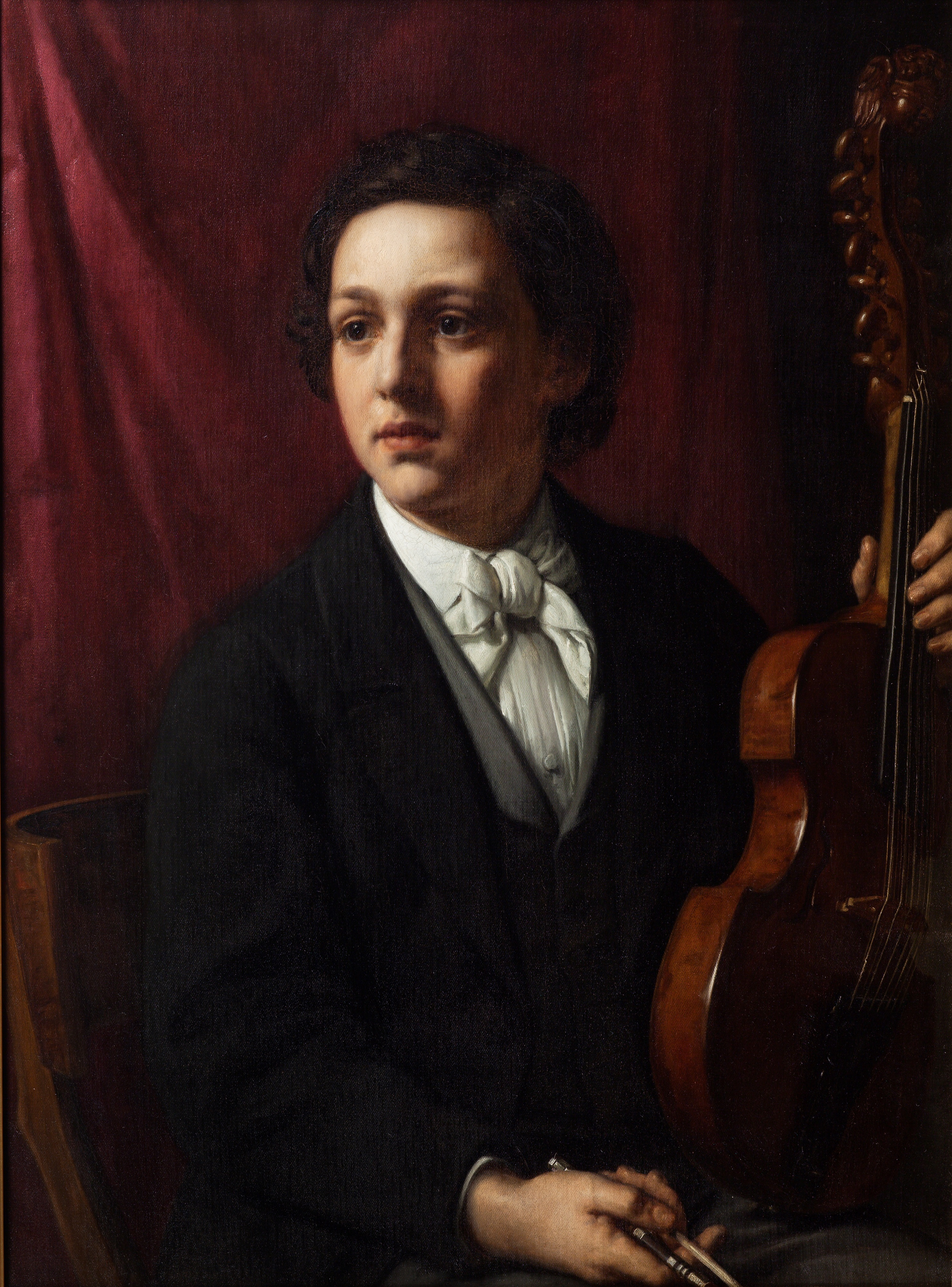 Holger Roed, A young musician with his violin. Portrait of Ms. Rung (1854-1914), c. 1869